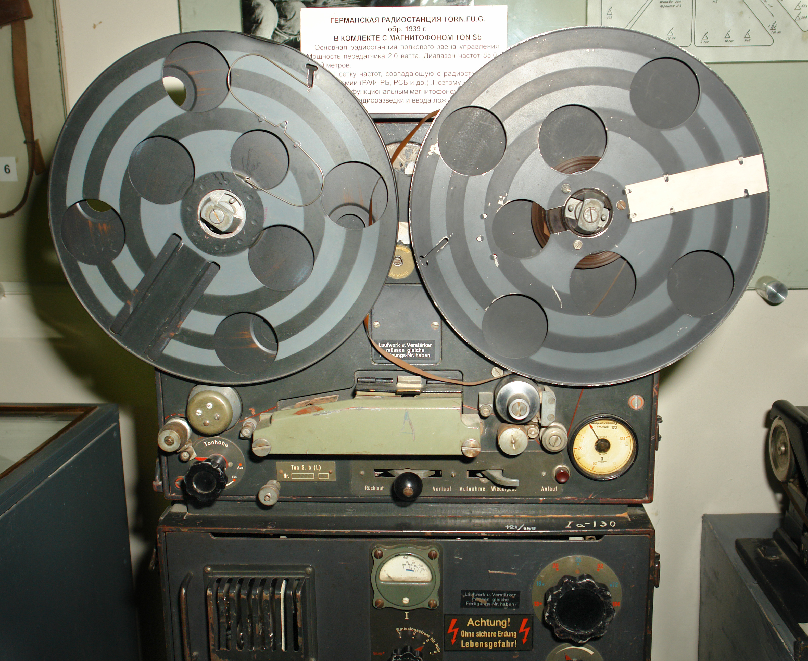 German Wehrmacht tape recorder AEG Magnetophon Tonschreiber B with AEG 2-hole bobbies, built after 1942, from a German radio station in World War II. Military History Museum of Artillery, Engineers and Signal Corps, Saint Petersburg